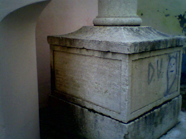 Stone memorial of the Aveiro's shame in Belém, Lisbon. I made it myself!